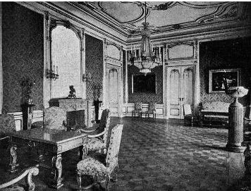 First Room of royal suite in the Royal Castle of Budapest.